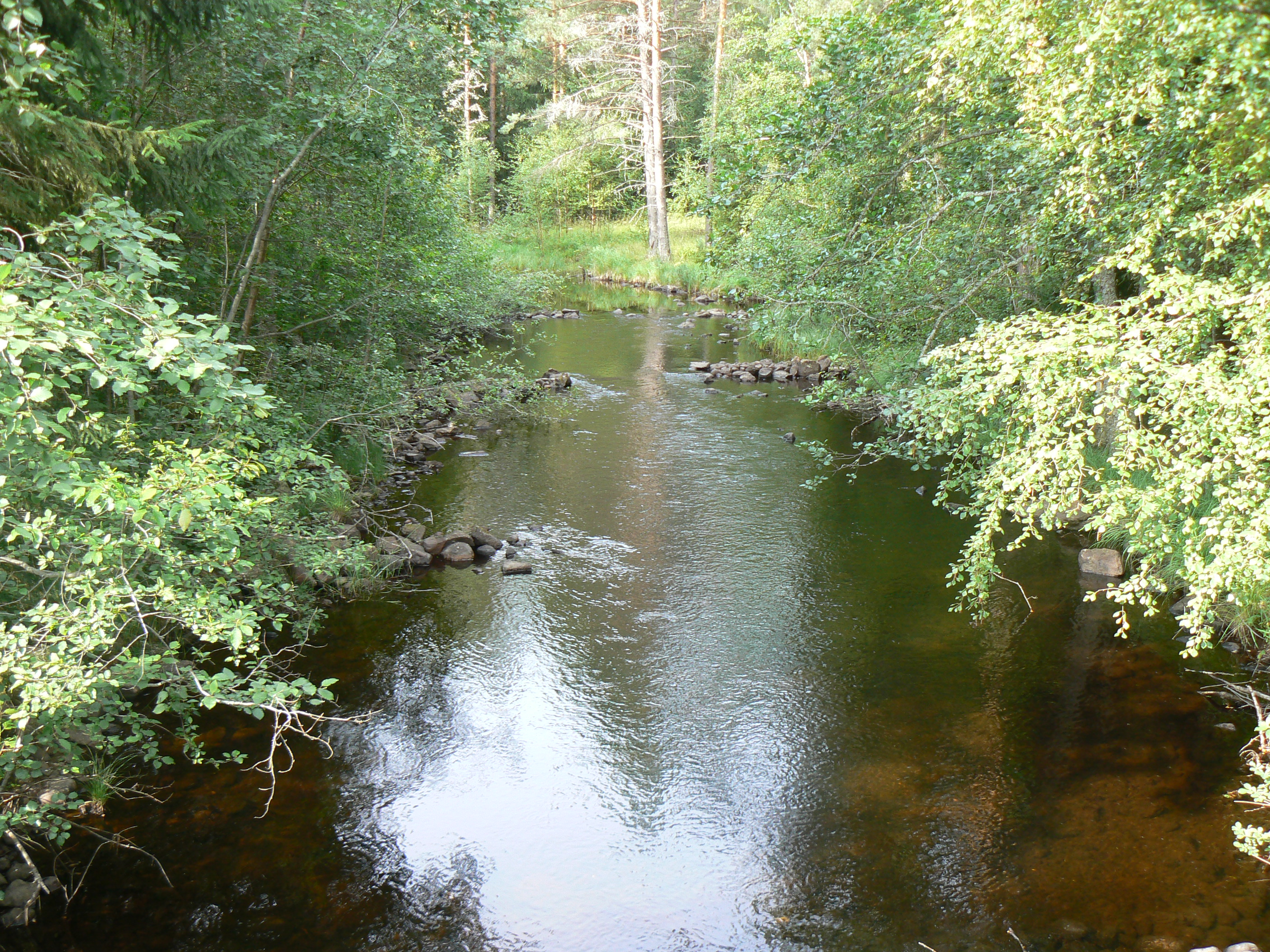 Jobsarboån, little river in Leksand Municipality, Sweden.